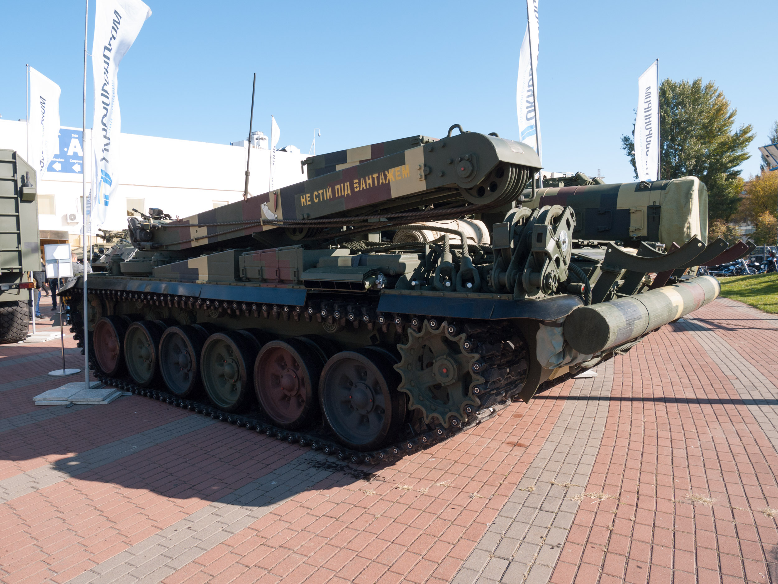 BREM Lev engineer vehicle, 'Zbroya ta Bezpeka' military fair, Kyiv, Ukraine, 2018